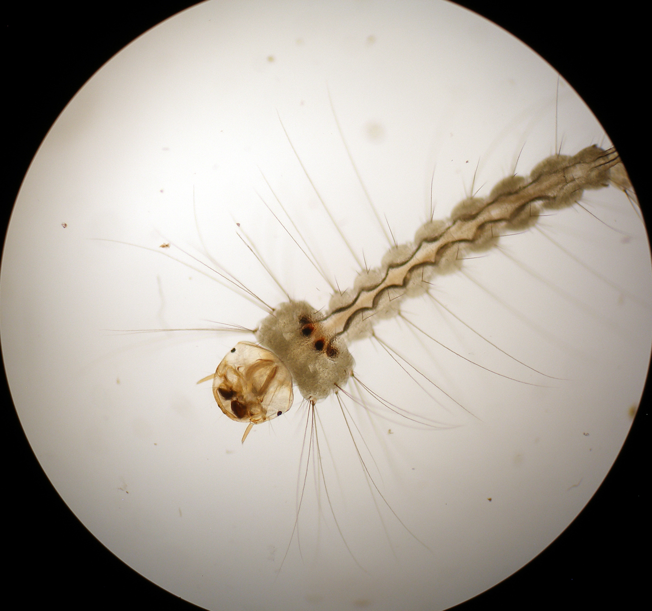 Wyeomyia smithii, the pitcher plant mosquito that completes nearly all of its life cycle in the pitchers of the carnivorous Sarracenia purpurea. It is the top-level predator in this phytotelma ecosystem. Magnification is 40x.